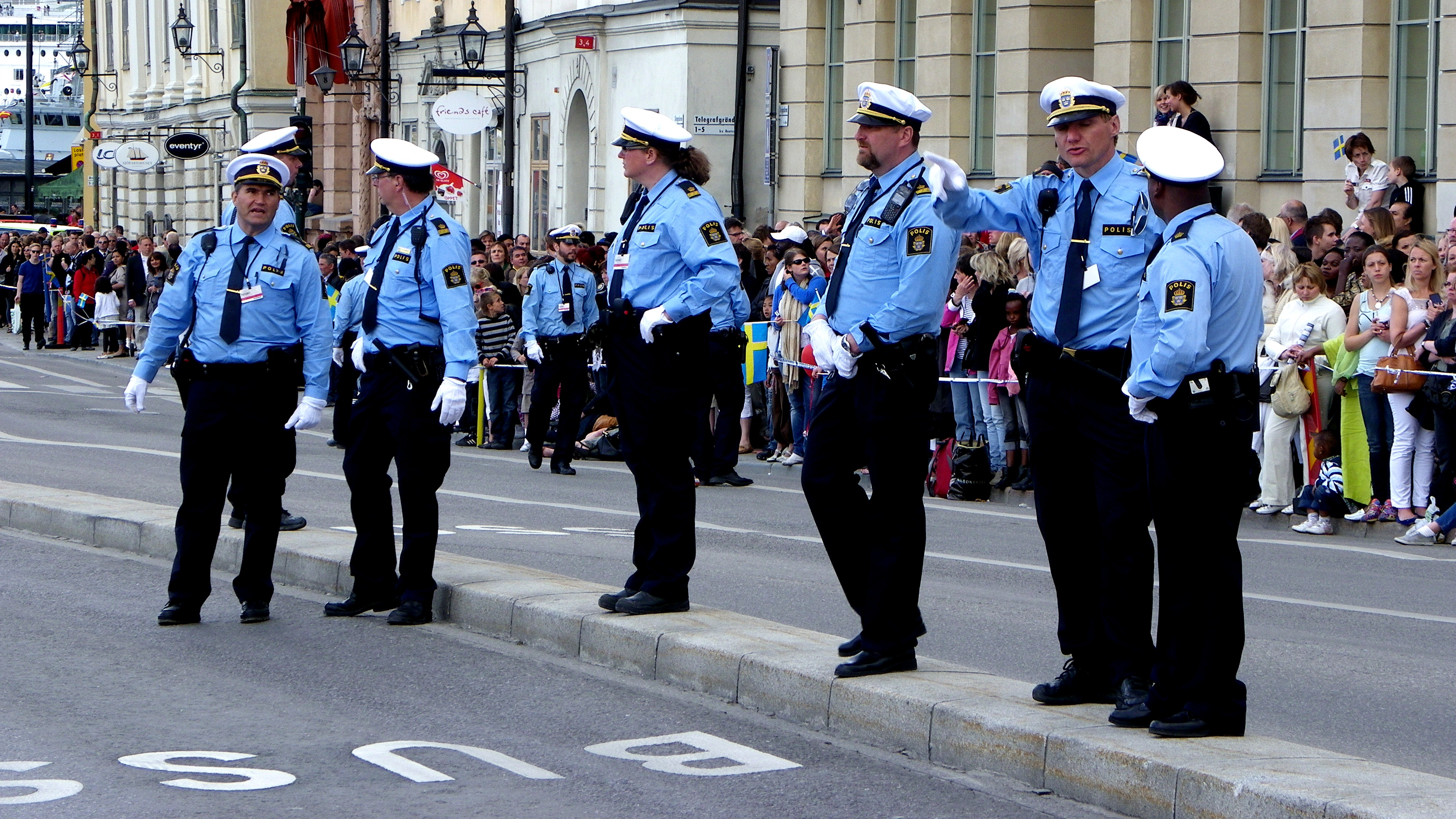 Police officers in ceremonious uniforms while guarding the Wedding of Victoria, Crown Princess of Sweden, and Daniel Westling.